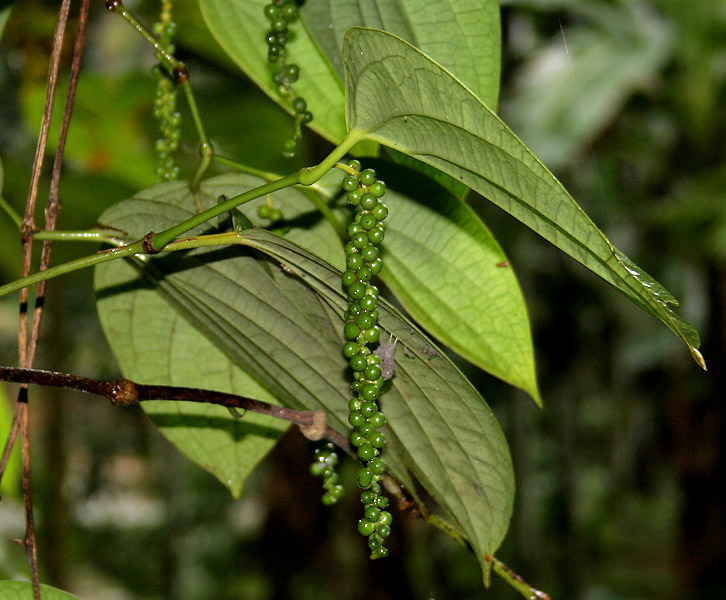 Piper nigrum- Black pepper, Green pepper, Pink pepper, White pepper • Hindi: काली मिर्च Kali mirch • Marathi: गोलमिरिच Golmirich • Tamil: Kurumilagu • Malayalam: Kurumulaku • Telugu: Miryalatige • Kannada: Karimenasu • Urdu: Syah mirch • Gujarati: કાલો મિરિચ Kalomirich • Sanskrit: Marich- in Goa, India.